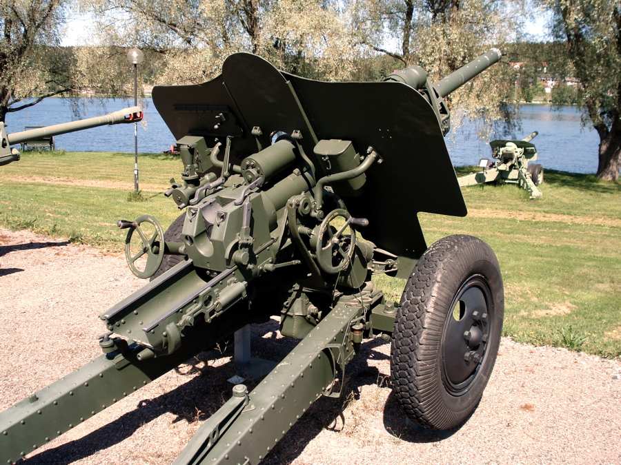 Soviet 76.2 mm F-22 (USV) M1939 gun, displayed in Hämeenlinna Artillery Museum. This gun was manufactured in 1941 in Stalingrad. Photo taken on June 18, 2006. Source: Photo by me, User:Balcer.